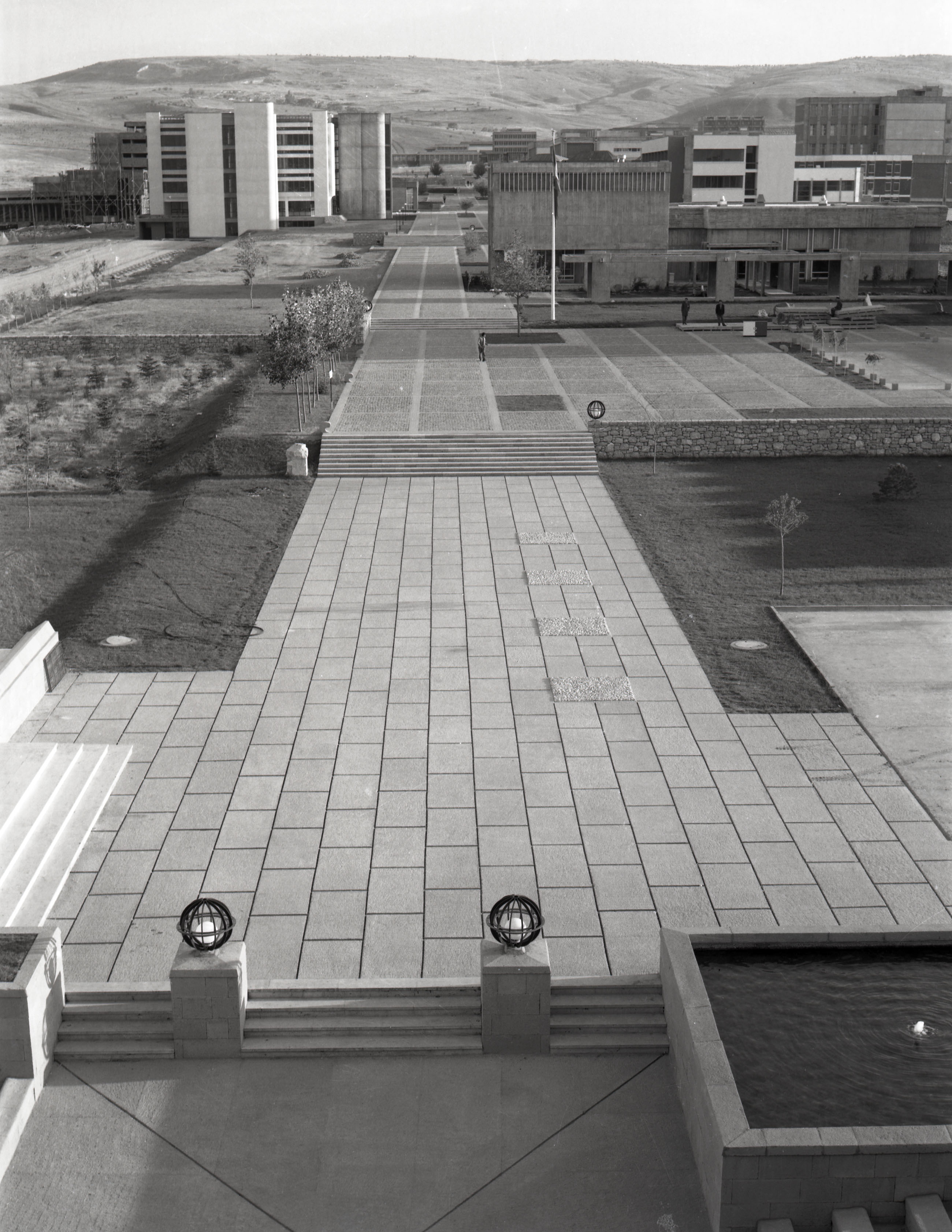 General view of the campus, 1961-1980 SALT Research, Altuğ-Behruz Çinici Archive Kampüsten genel görünüm, 1961-1980 SALT Araştırma, Altuğ-Behruz Çinici Arşivi